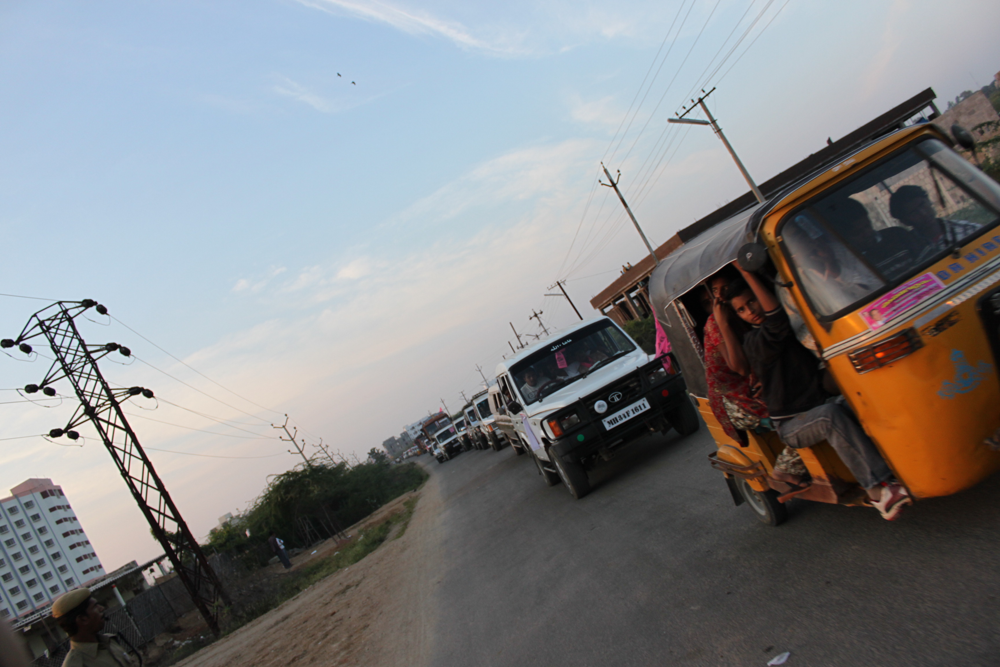 shot at the Telangana Maha Garjana 2010